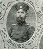 Portrait of IMARO member Nikola Parapanov from Fotovishta